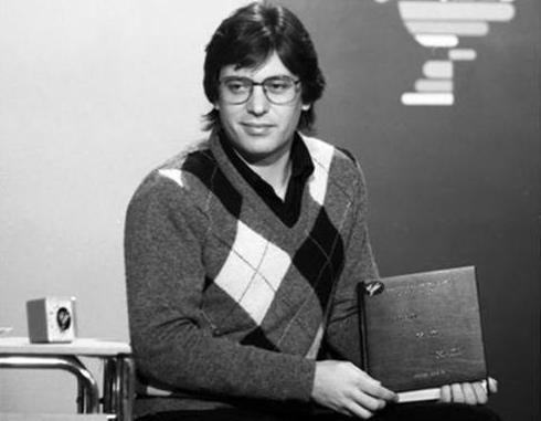 Alexander Avdjiev - Mr."Good morning" in 1990